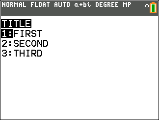 An example of the rendering of Menu("TITLE","FIRST",1,"SECOND",2,"THIRD",3) on a TI-84 Plus CE calculator, as explained on TI-BASIC_83_(Z80).